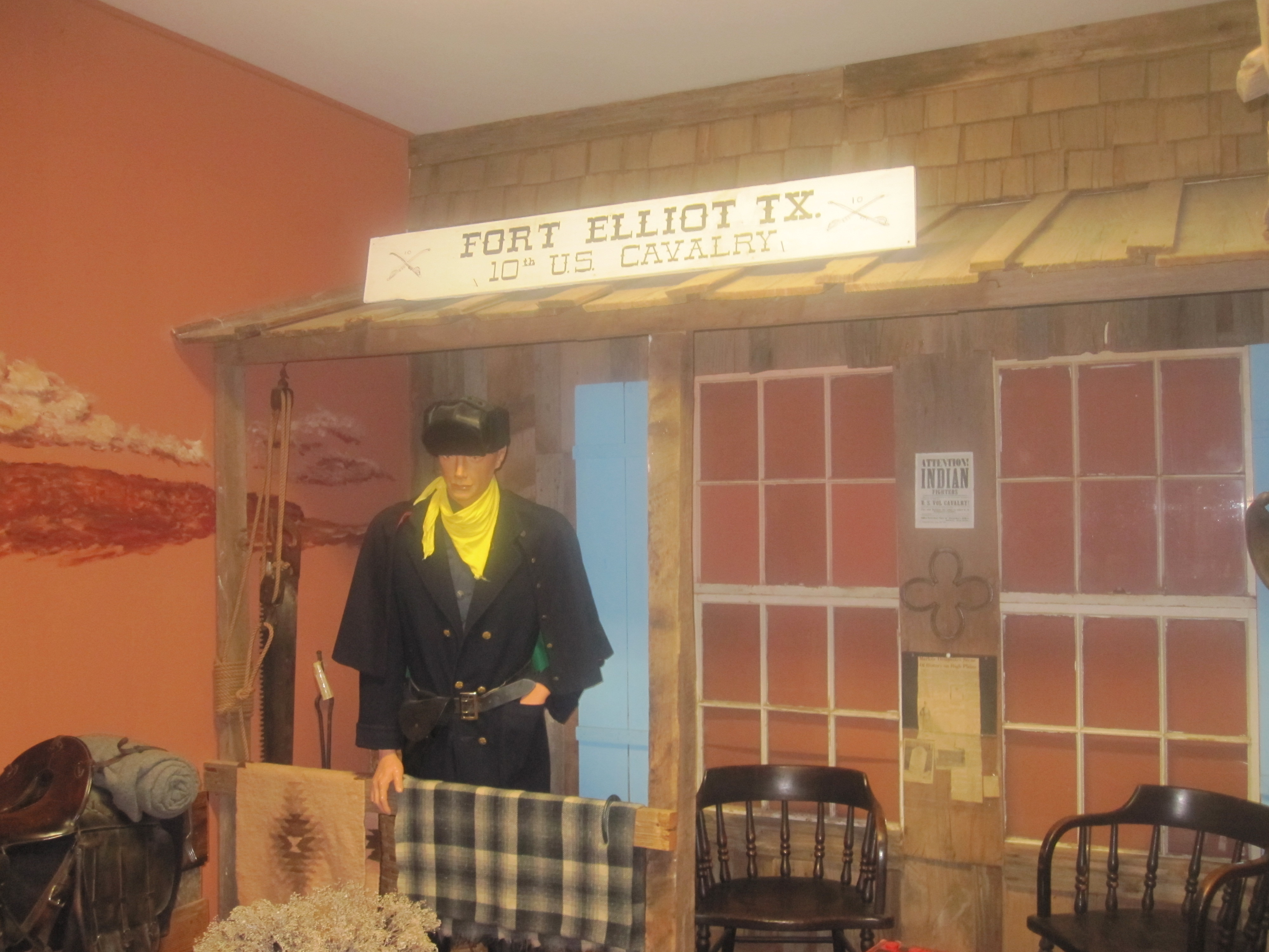 I took photo with Canon camera in Shamrock, TX.